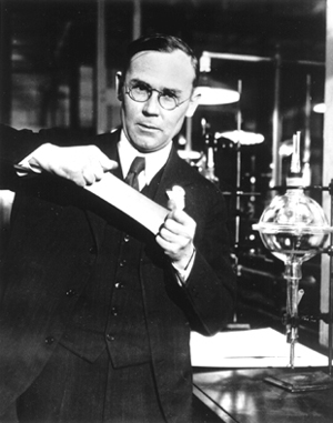 Picture of Wallace Carothers